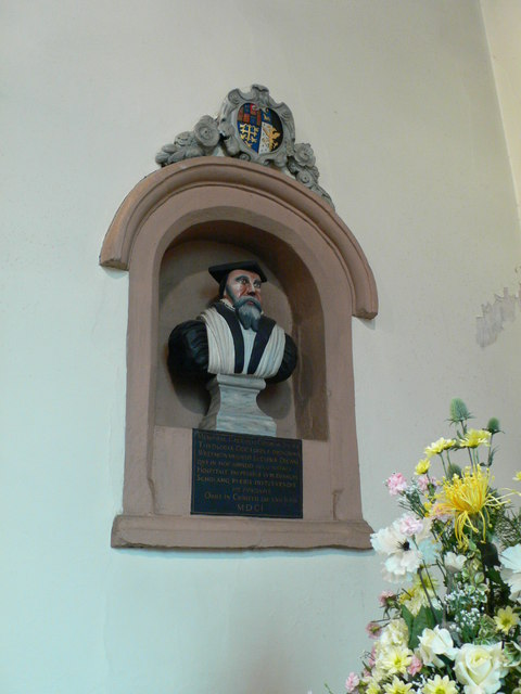 Gabriel Goodman. Bust of Gabriel Goodman in St Peter's Church, Ruthin. Goodman was born in Nantclwyd House, Ruthin 295771, and became Dean of Westminster Cathedral in London when Elizabeth I was on the throne. He is buried there.